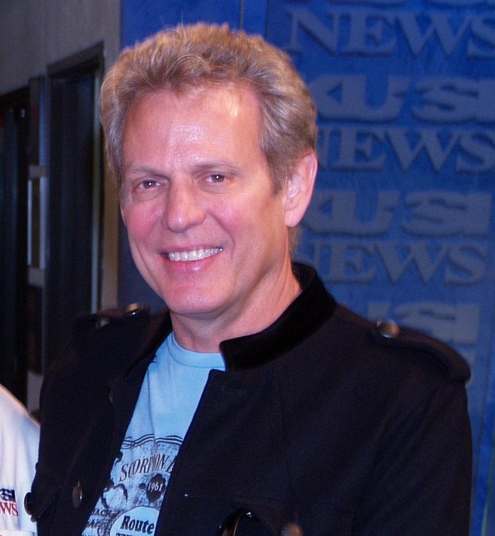 This is a photograph I personally took when Don Felder came by my television station (KUSI-TV in San Diego, California).